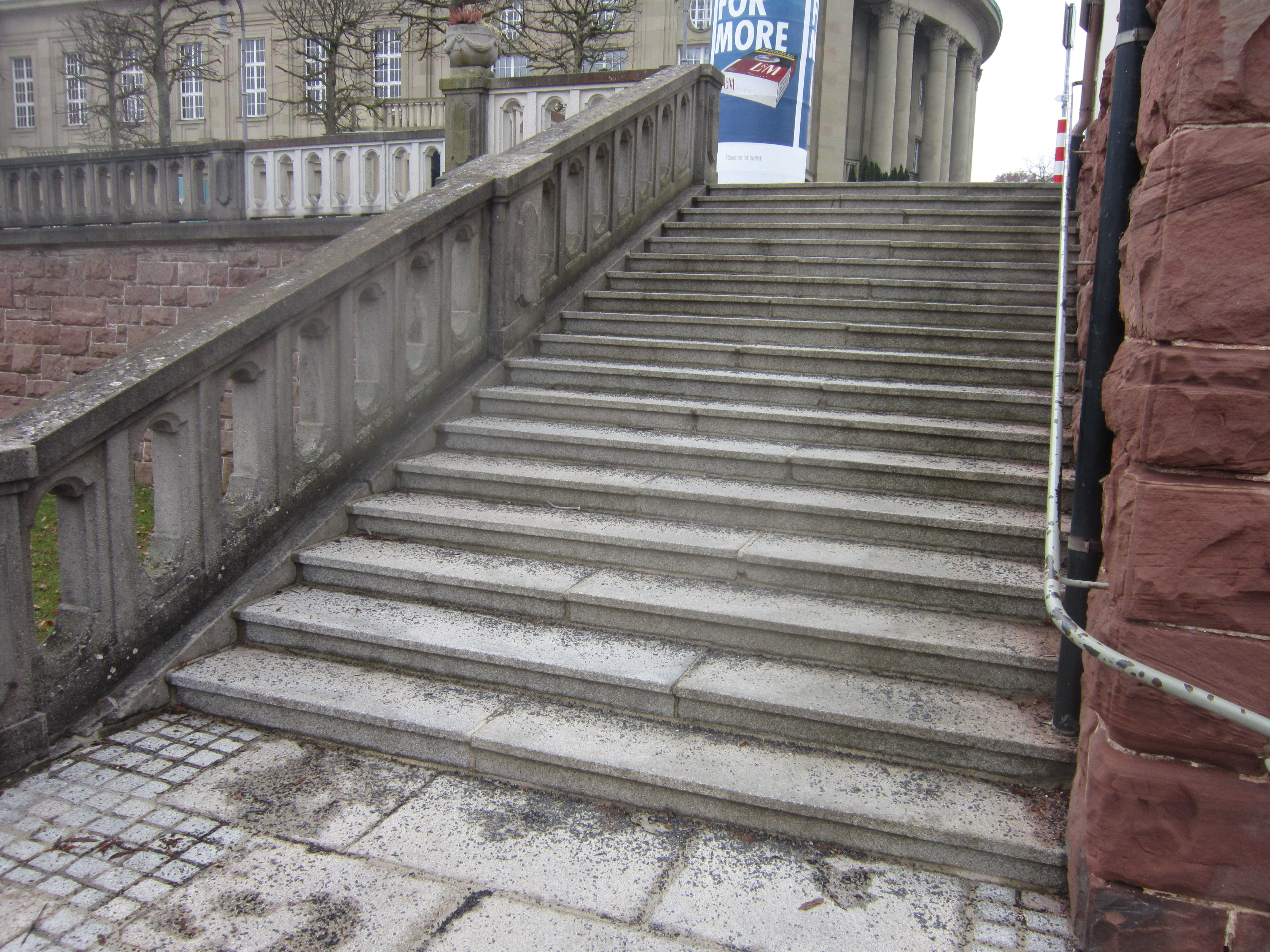 Stairs at a building in the German spa town of Bad Kissingen in Lower Franconia (Bavaria) (Address: Ludwigstraße 1).